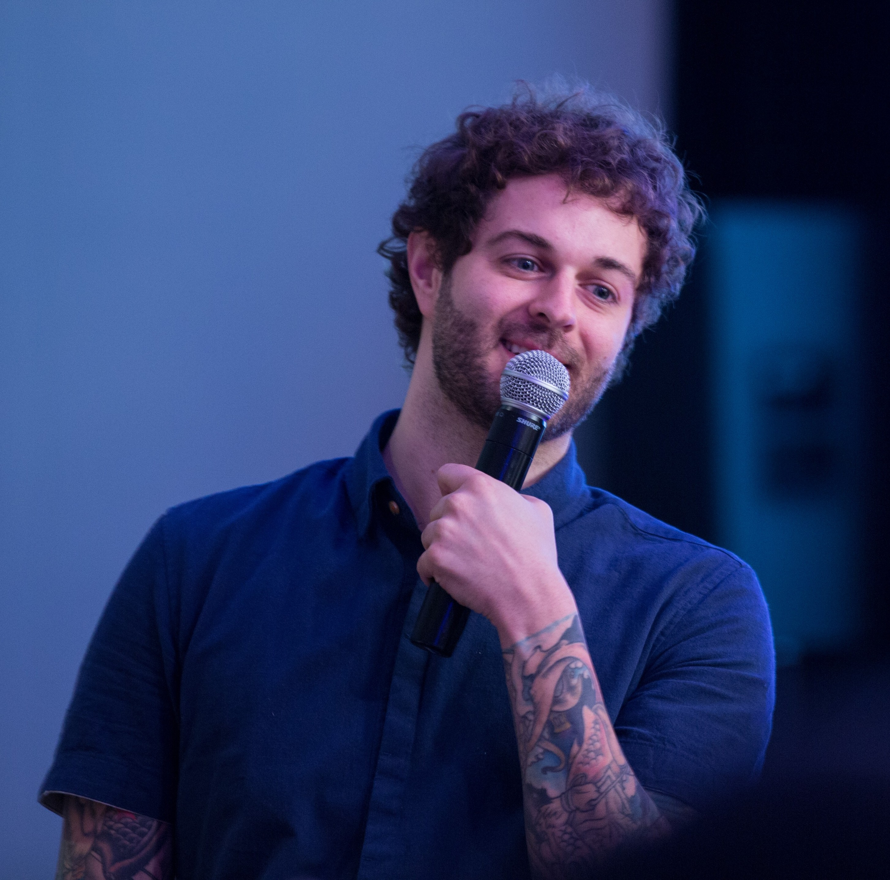 Curtis Lepore. Taken during South by Southwest 2016 in Austin, Texas during the keynote Short-Form Filmmaking: Stars of Social Media.